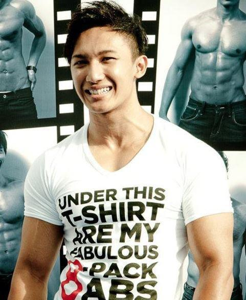 Singaporean model and actor Kasbani Kasmon taking part in the 8 Days Magazine Shirtless Guy Search 2011.